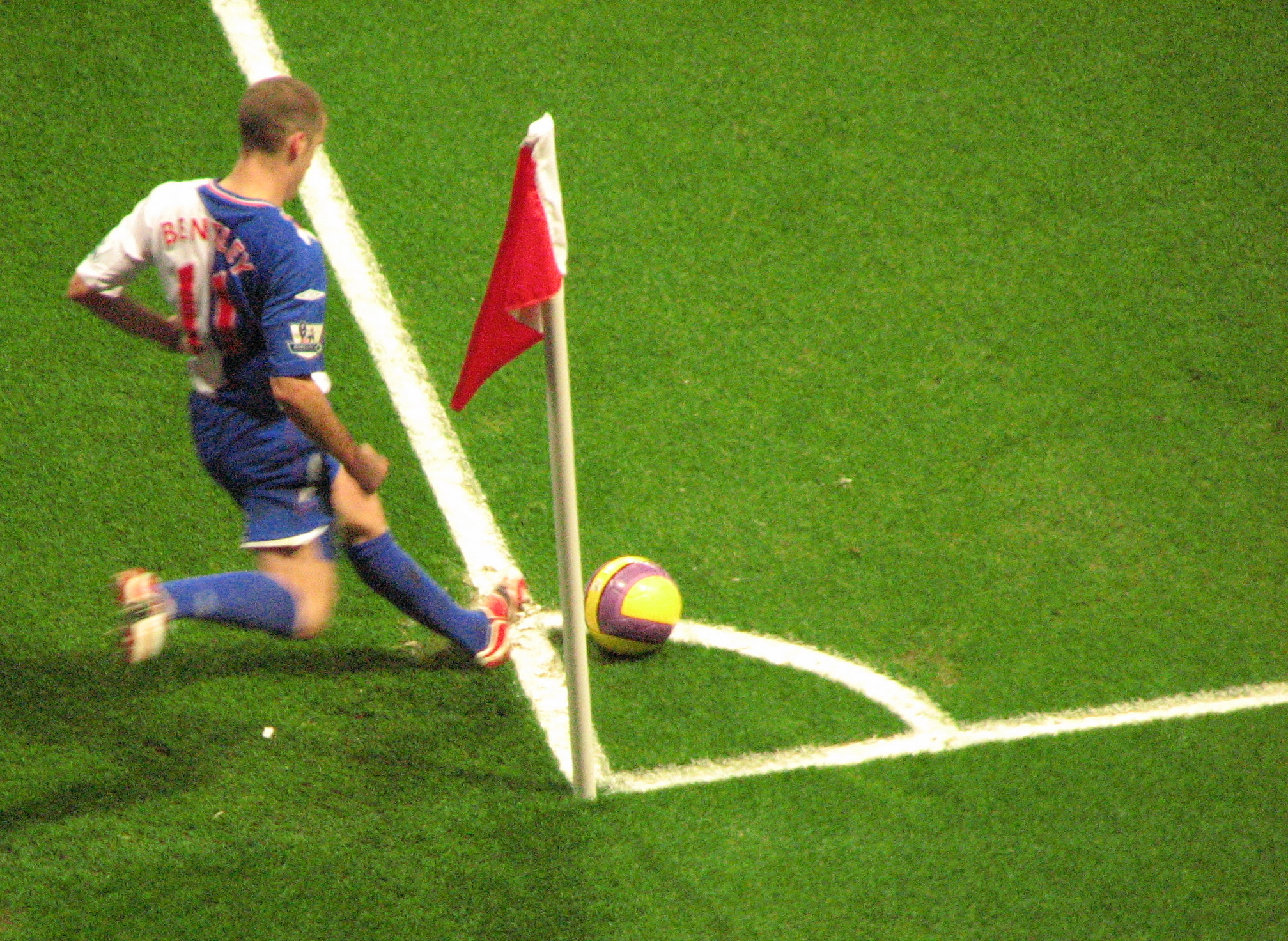 David Bentley playing for Blackburn Rovers against Arsenal FC (at Emirates Stadium)